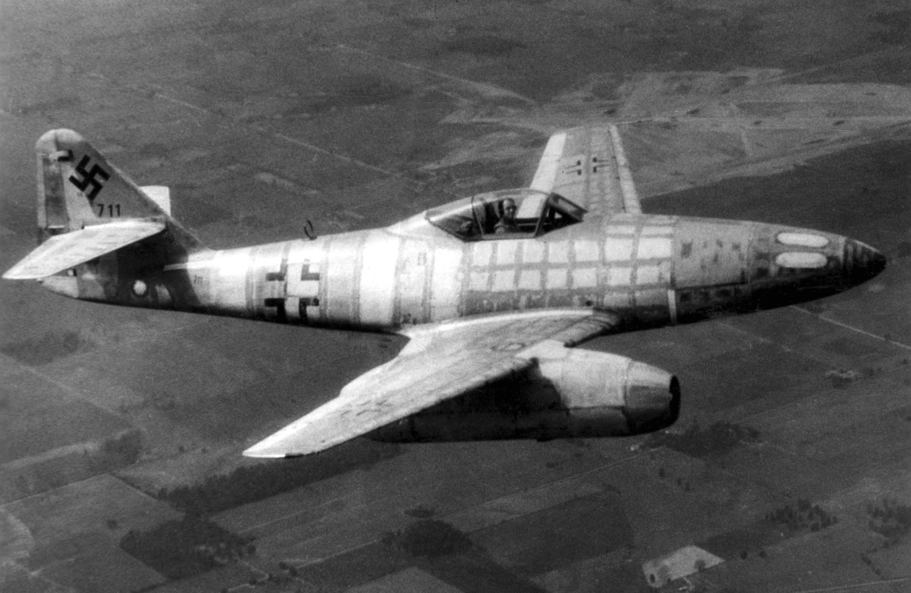 Messerschmitt Me 262, the world's first jet fighter. (U.S. Air Force photo)